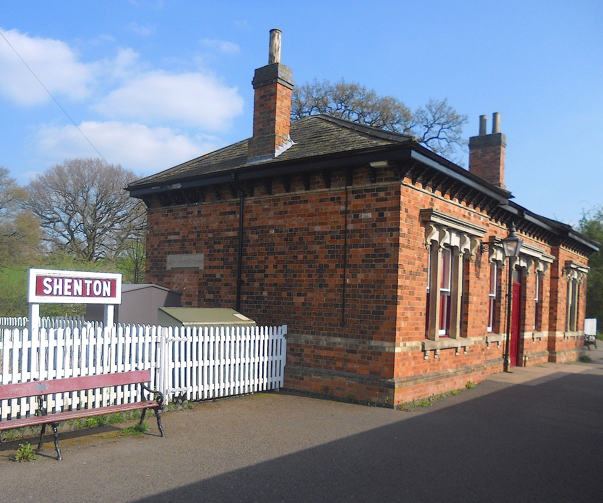 Shenton Station on the Battlefield Line Railway